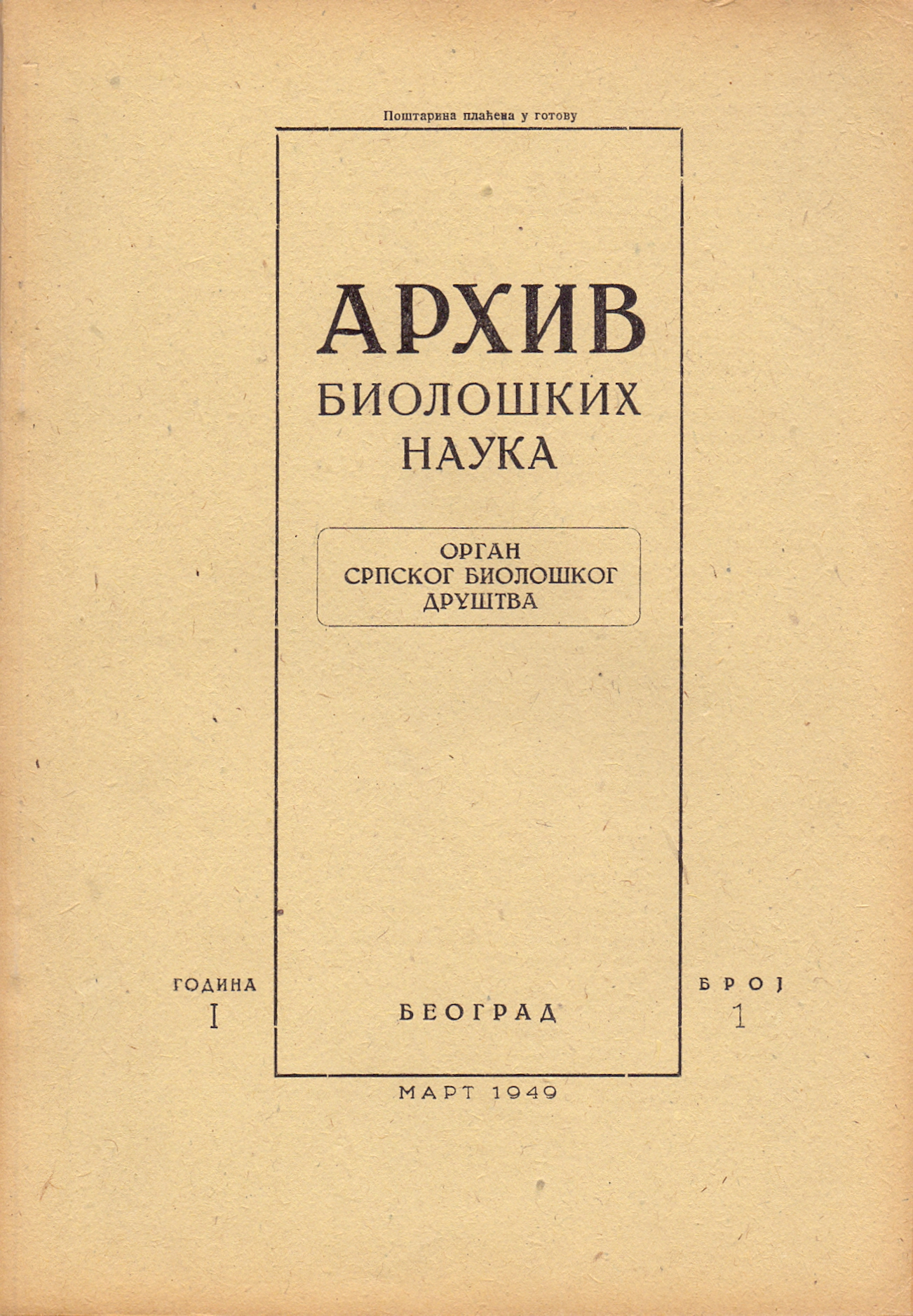 Arhiv bioloških nauka (Archives of Biological Sciences continues Arhiv bioloških nauka) - cover page of the first number